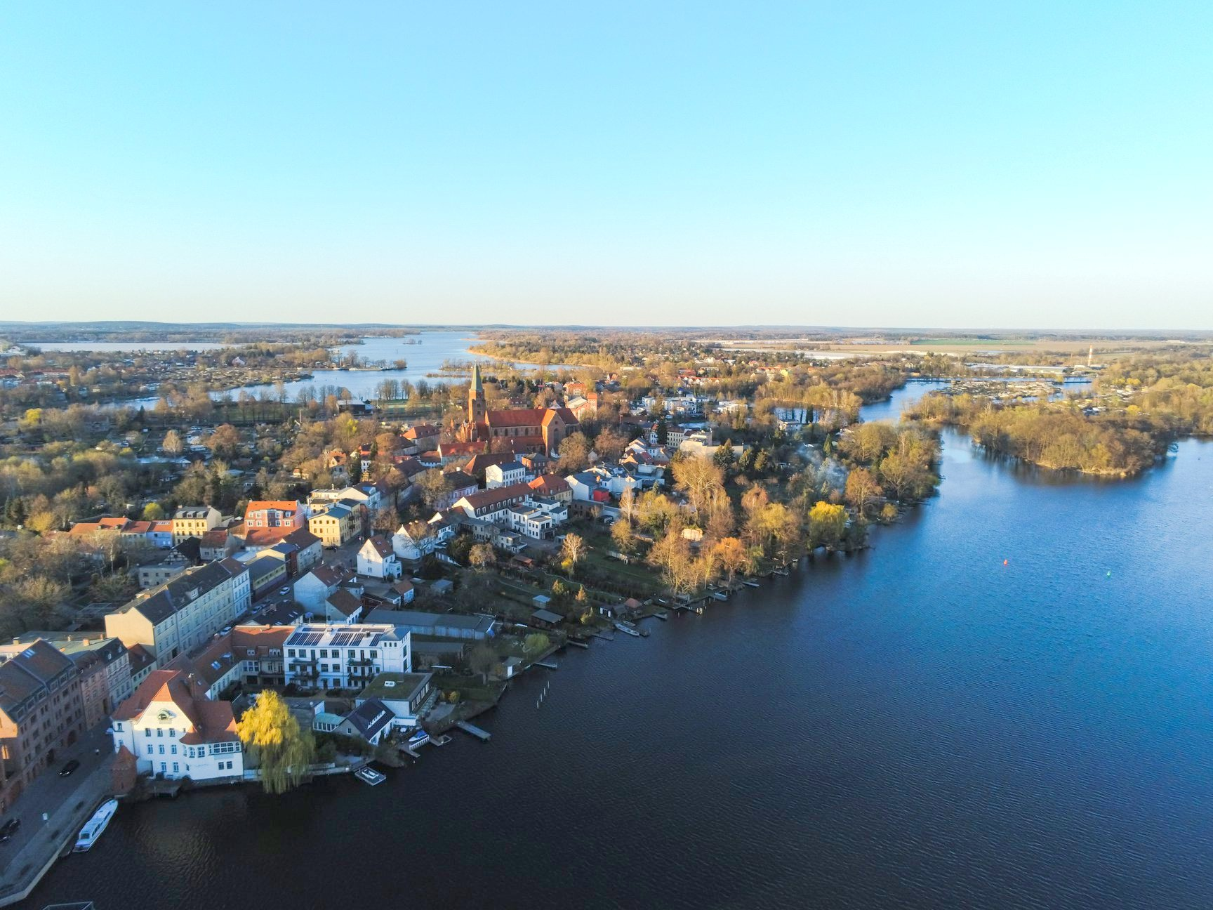 Blick auf die Dominsel Brandeburg / Havel